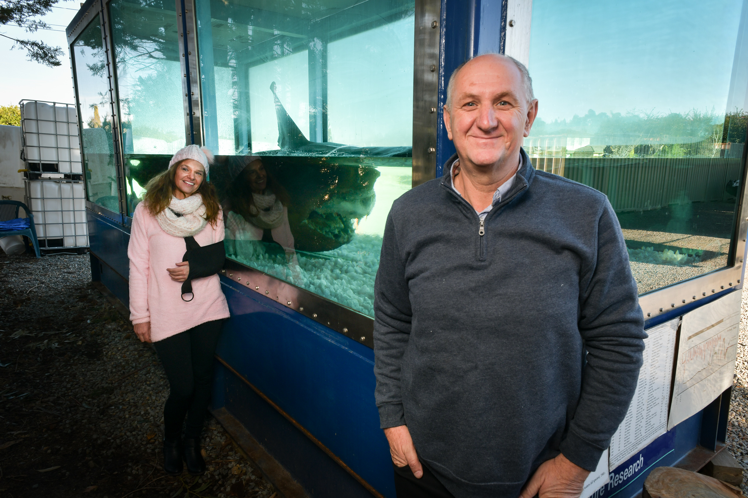 Geologist Tom Kapitany of Crystal World and Sharon Williamson of Australian Animal Rescue standing in front of Rosie the Shark, a preserved great white shark.